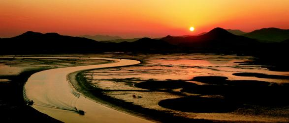 suncheon bay and reed fields.